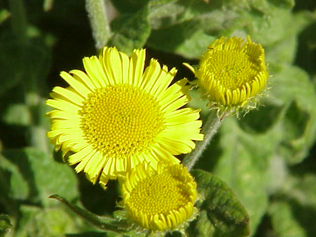 Species: Pulicaria dysenterica Family: Compositae Image No. 1